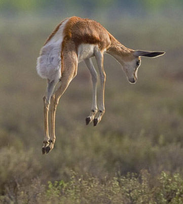 This is a young springbok stotting/pronking. It was photographed in Etosha National Park in Namibia